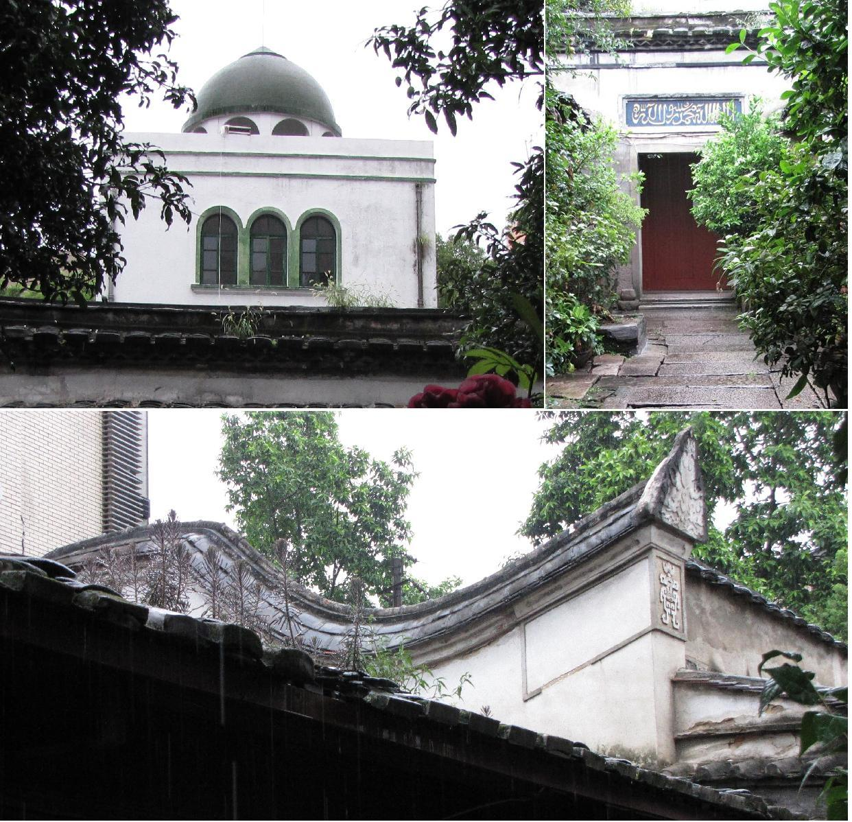 Architecture of Foochow Mosque in Fuzhou, Fujian, China